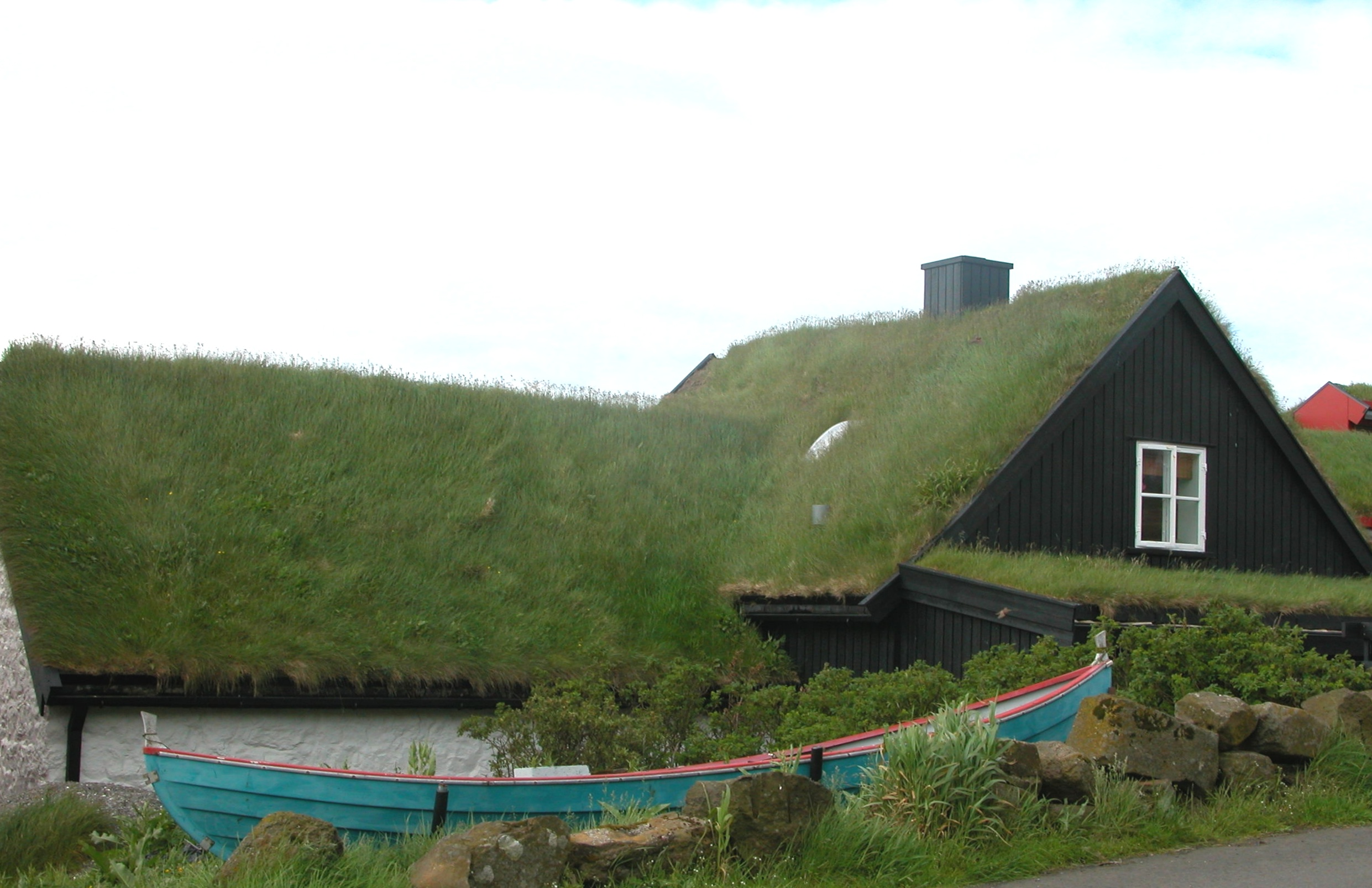 Velbastaður on Streymoy, Faroe Islands.